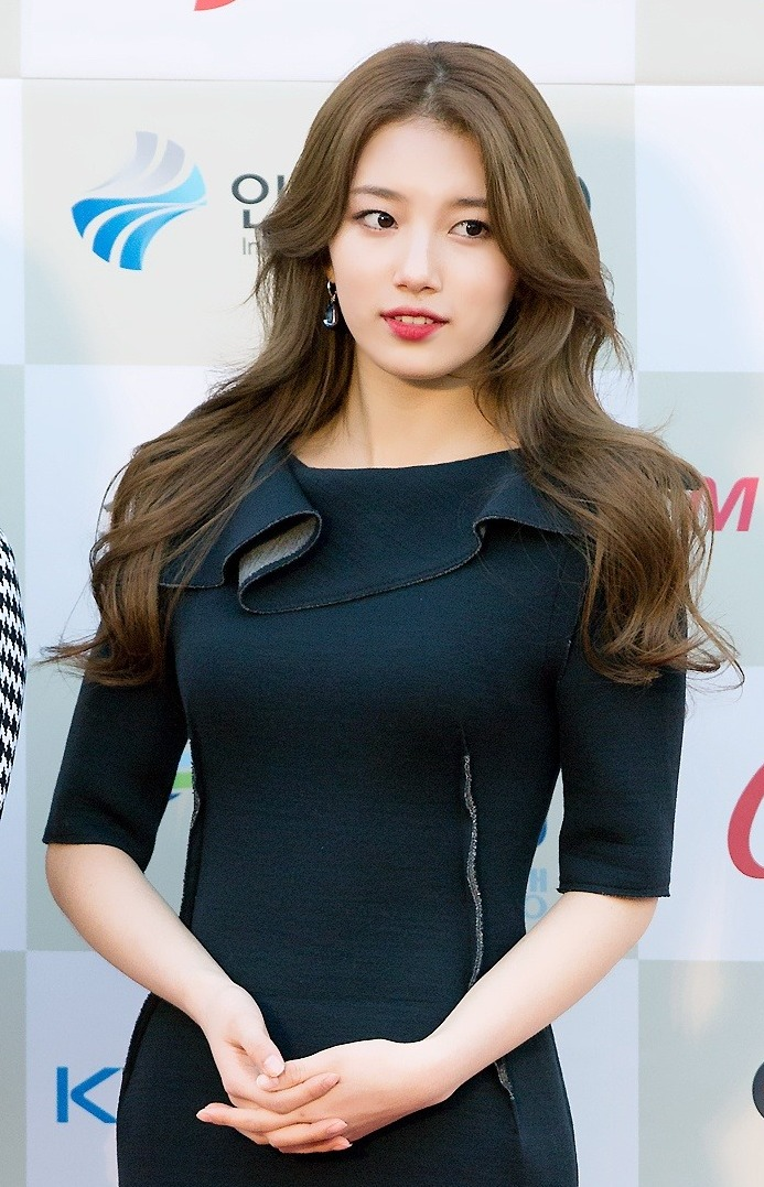 Bae Suzy at 2014 K-Pop Awards red carpet.